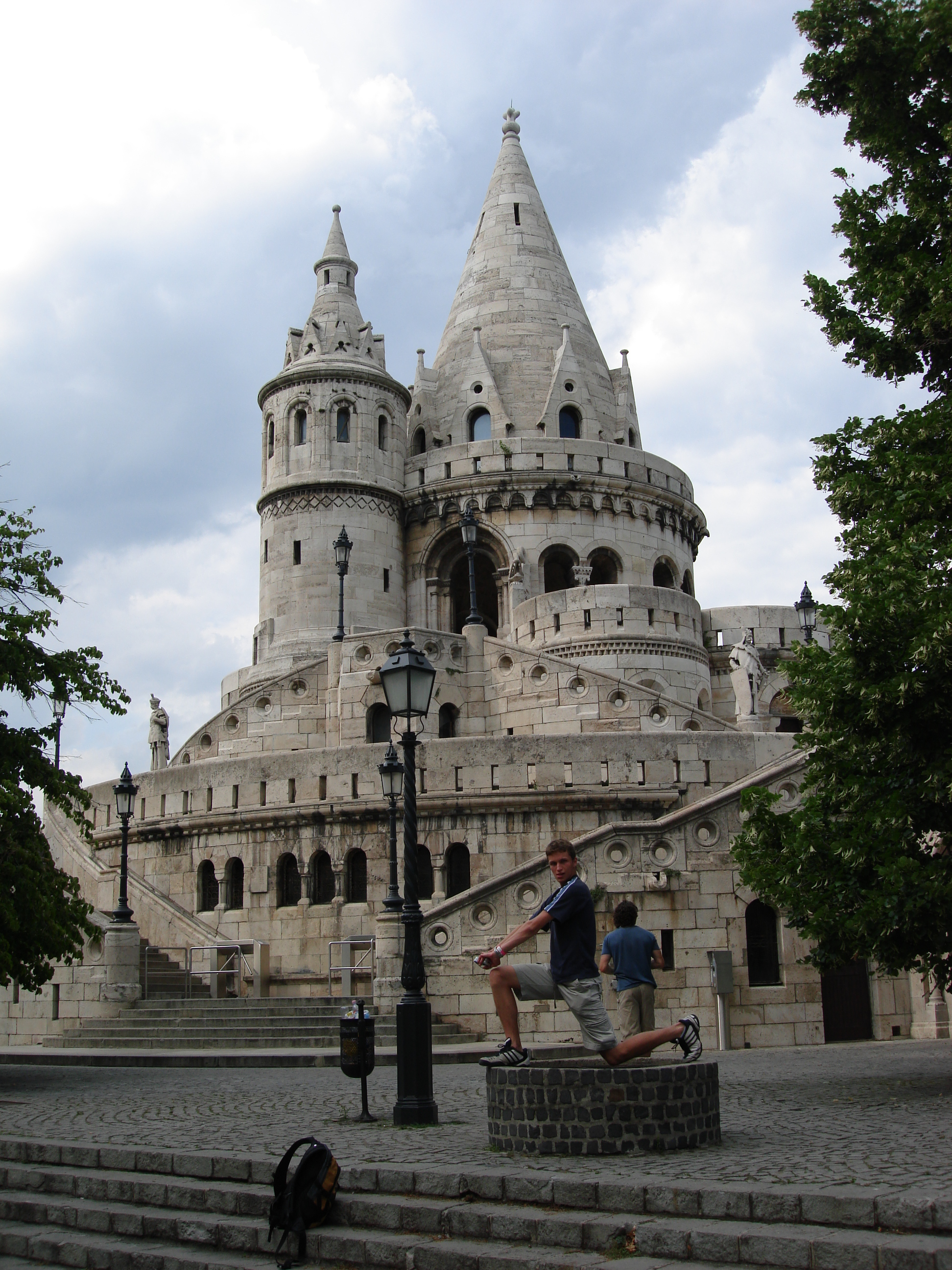 Fisherman's Bastion Lunge